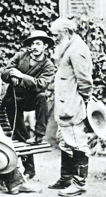 Cropped version of another file